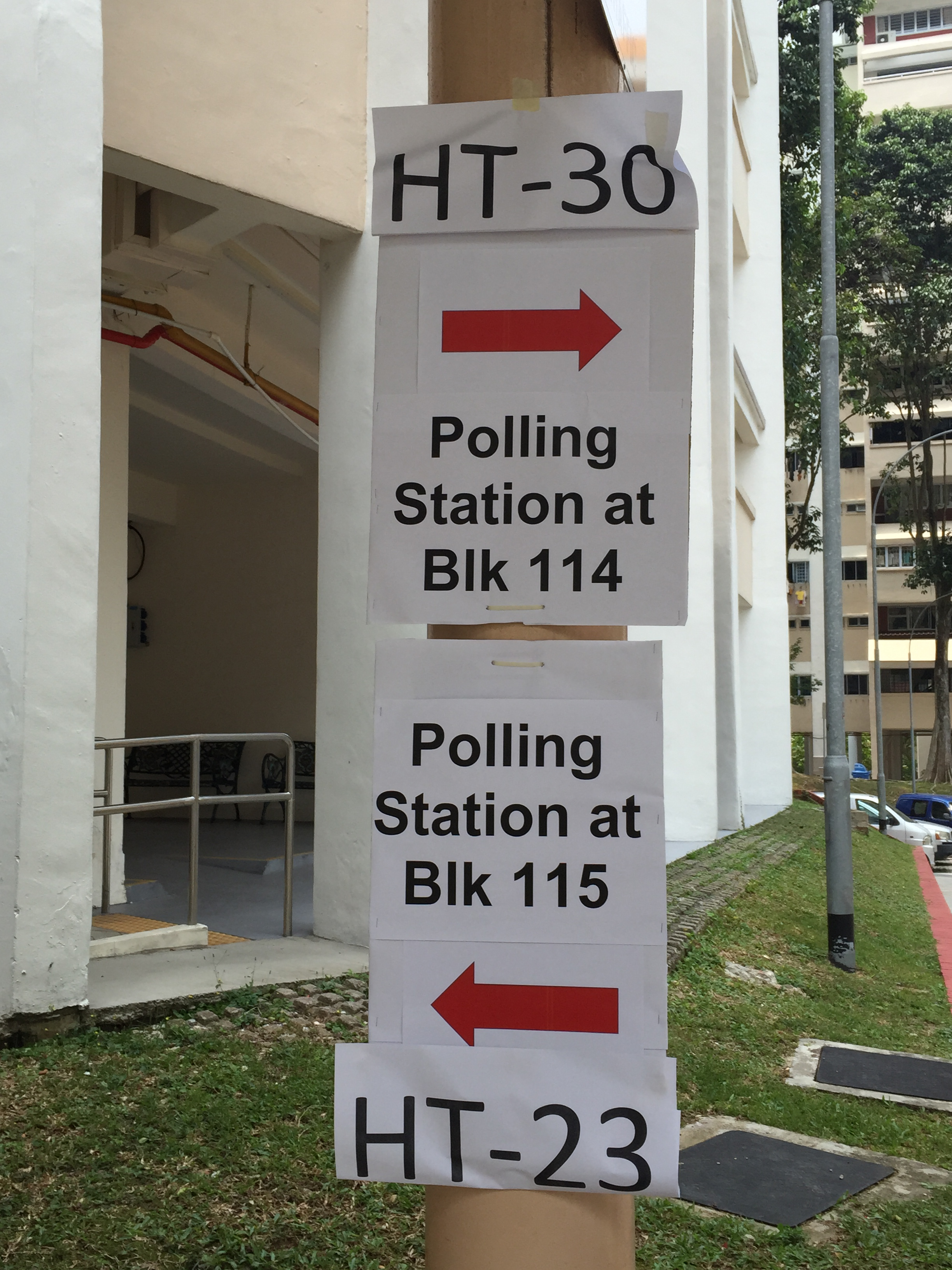 Signs pointing to polling stations for the Singaporean general election, 2015, at the void decks of Blocks 114 and 115 Clementi Street 13 in Holland-Bukit Timah Group Representation Constituency.